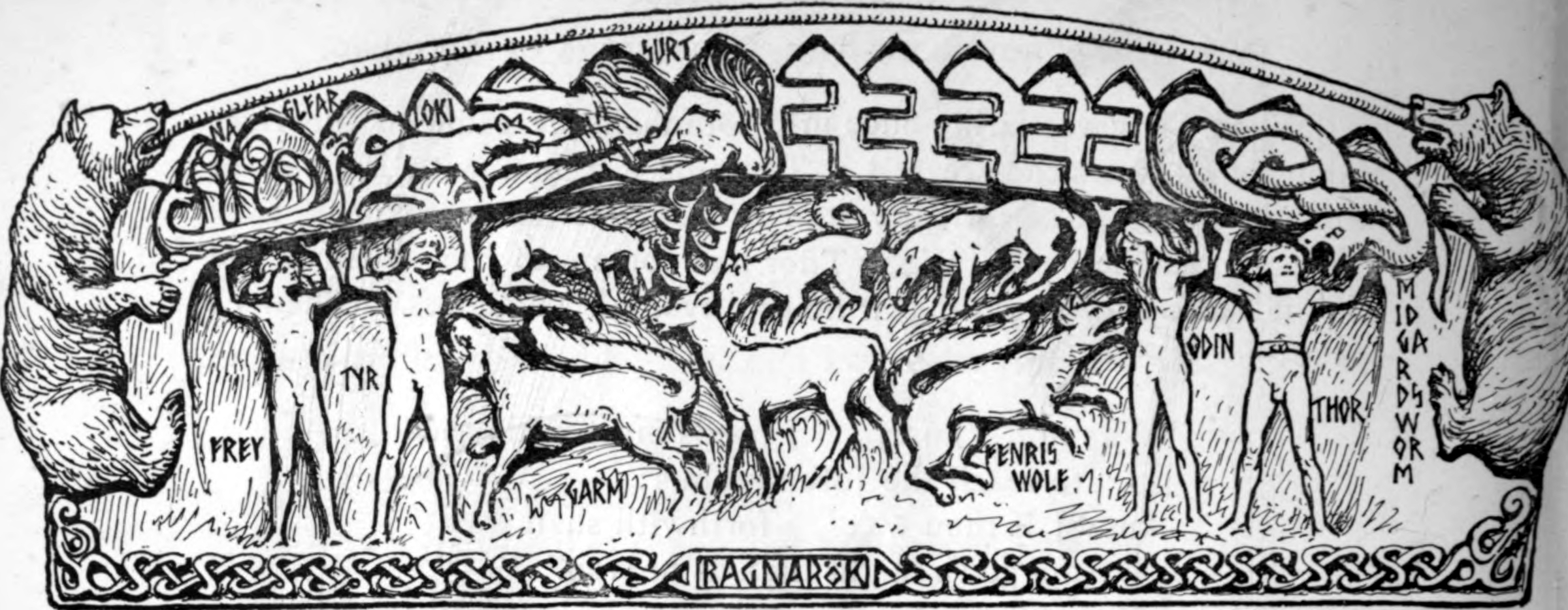 The list of illustrations in the front matter of the book gives this one the title Ragnarök (motif from the Heysham hogback).